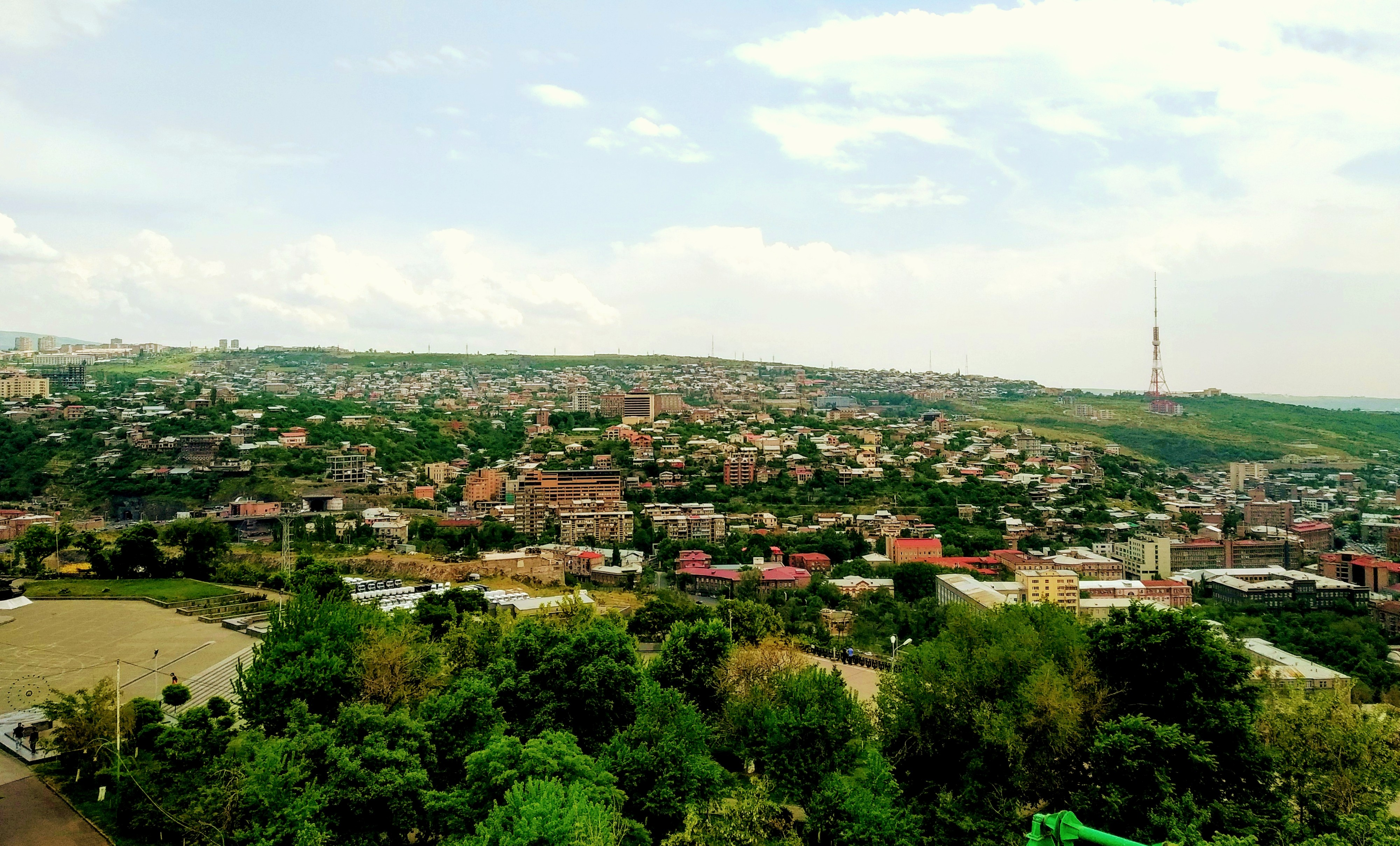 Nork-Marash district of Yerevan, May 2019.